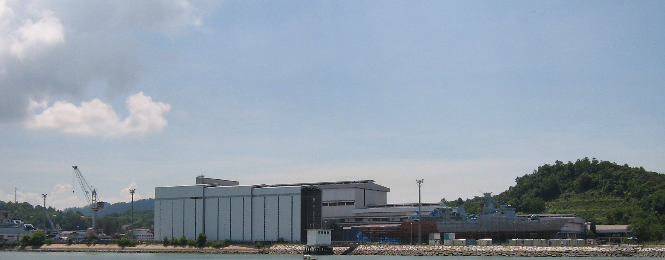 docks of malay navy in lumut